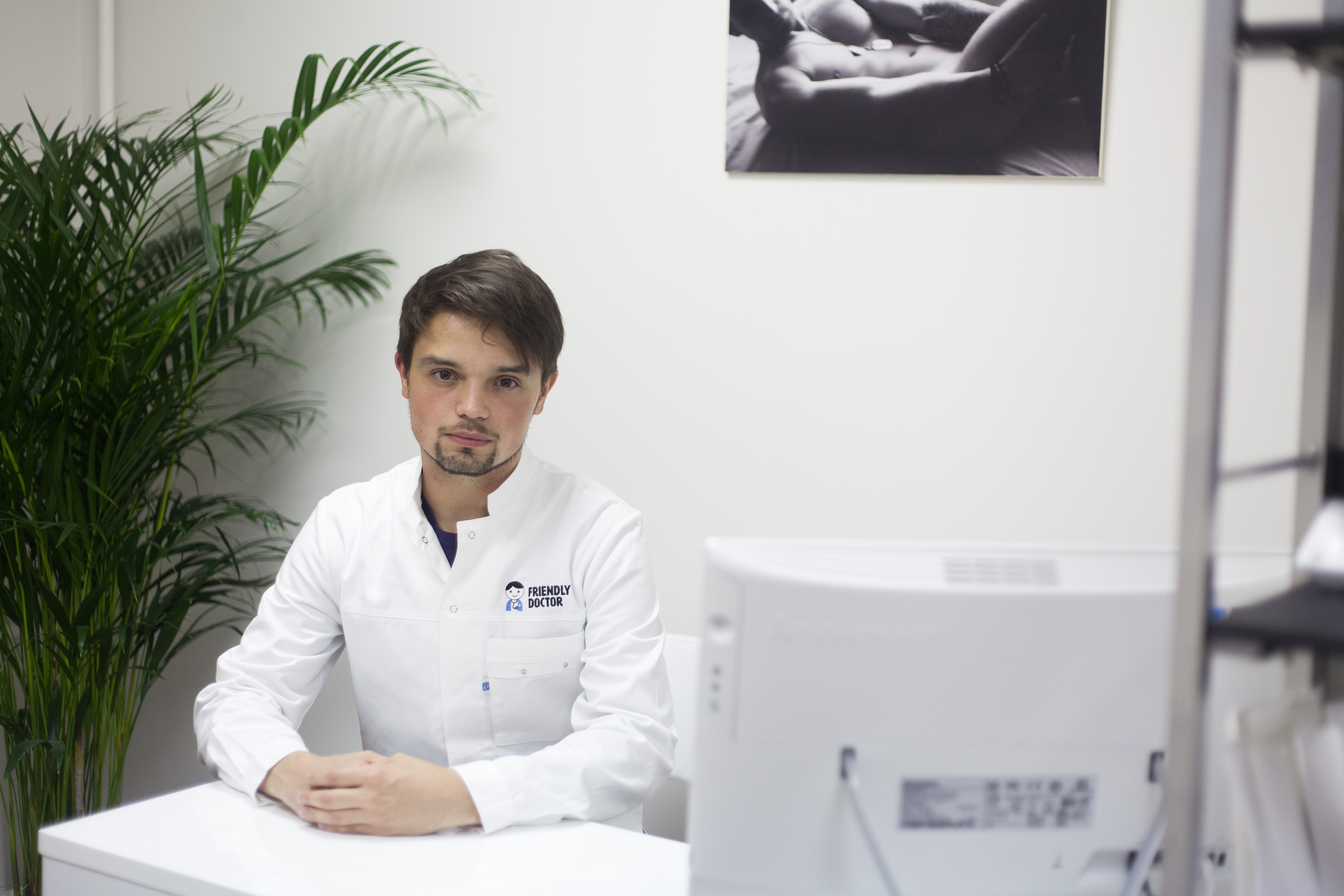 pic friendlydoctor in Fulcrum Ukraine